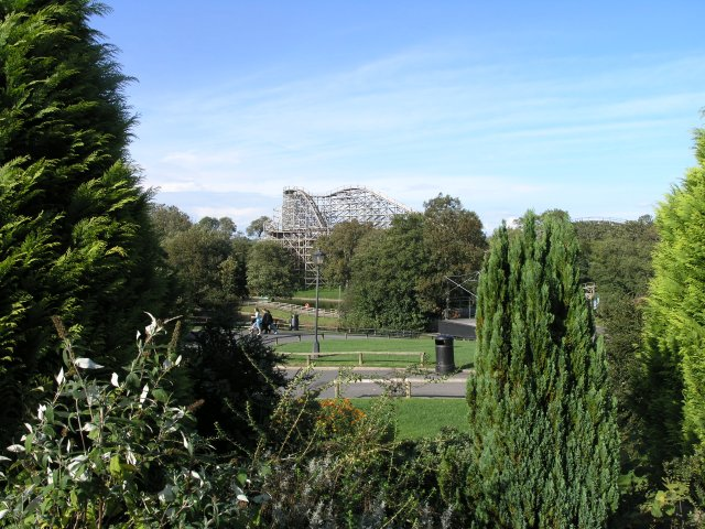 Oakwood Theme Park. The lift hill and first drop of Megafobia can be seen in the distance, Oakwood's large wooden rollercoaster celebrating its 10th anniversary in 2006.